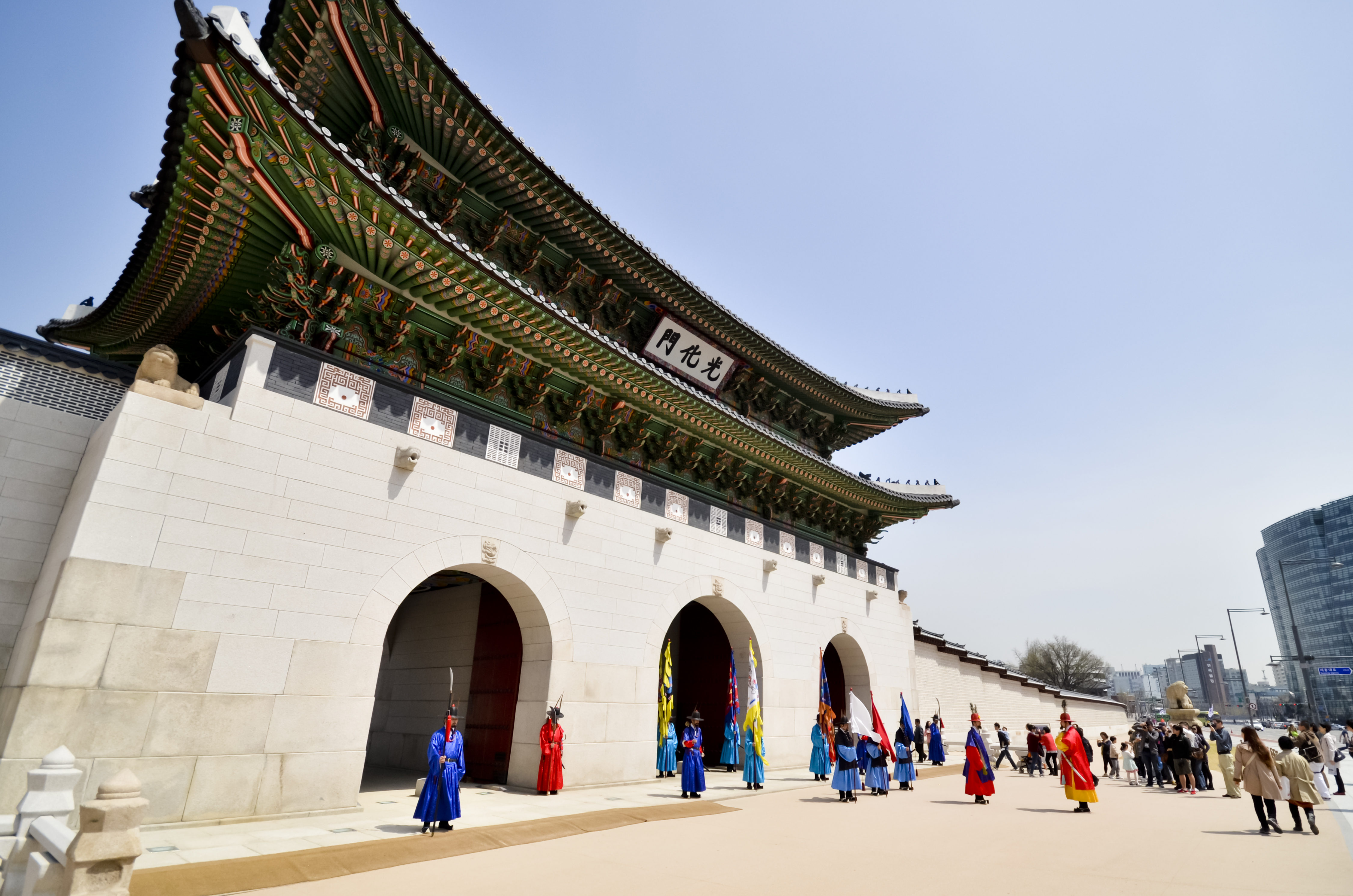 Gwanghwamun gate in Seoul, Korea. April 2012.